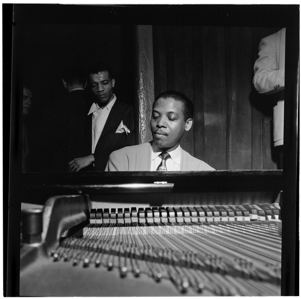 Kenny Kersey, Café Society (Downtown), New York